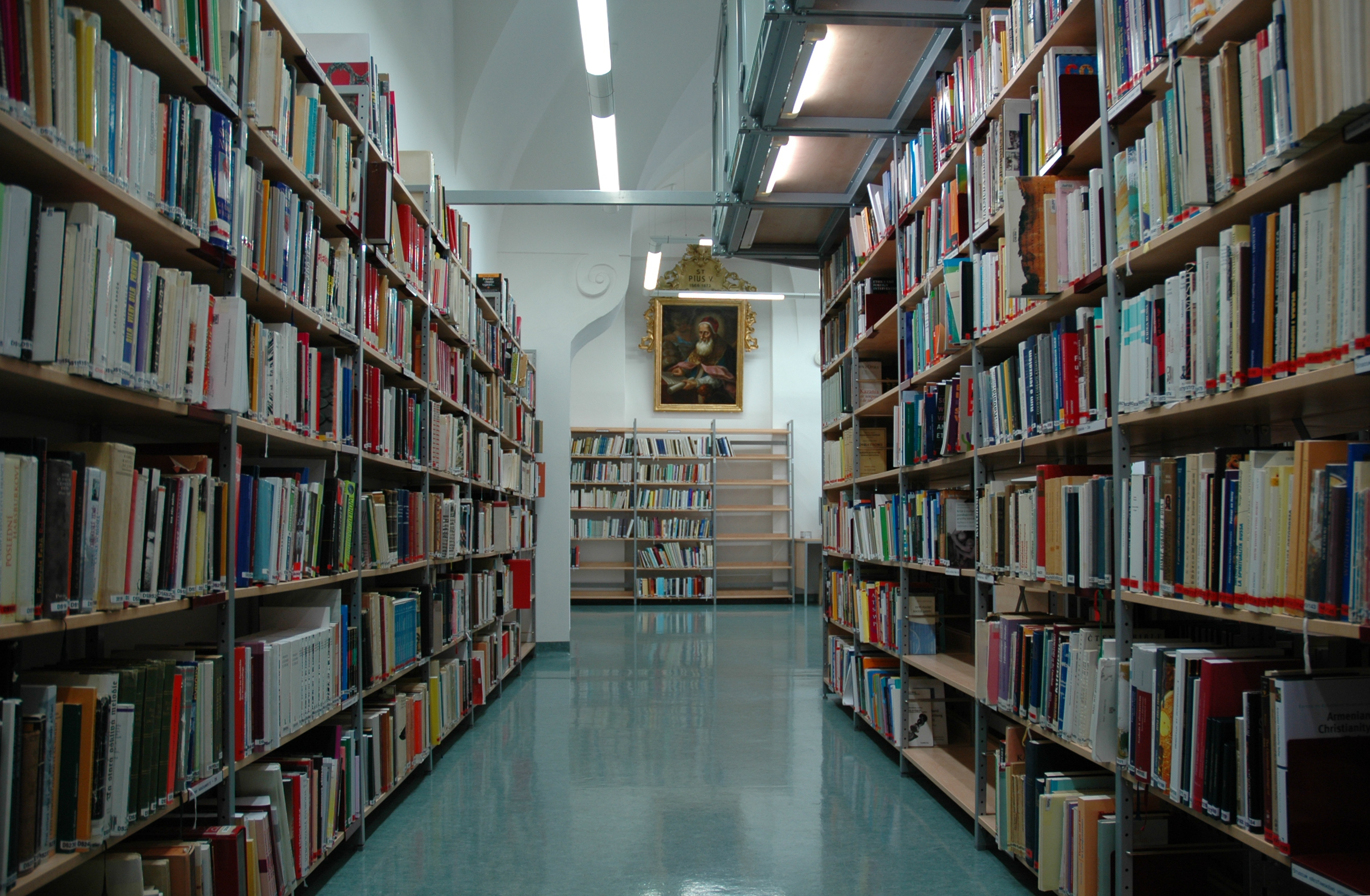 The former seminar of St. Francis Xavier – today Library of the Saints Cyril and Methodius Faculty of Theology, Palacký University in Olomouc, Czech Republic.